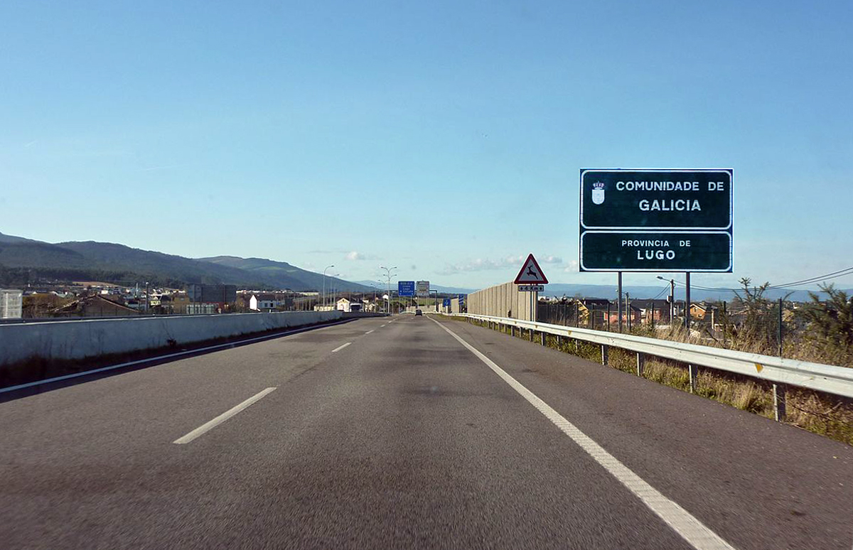 View towards west of the A-8 highway entering the region of Galicia (Spain) and crossing the Ría de Ribadeo